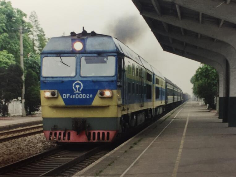 Original Author weibo: @编外爱运转